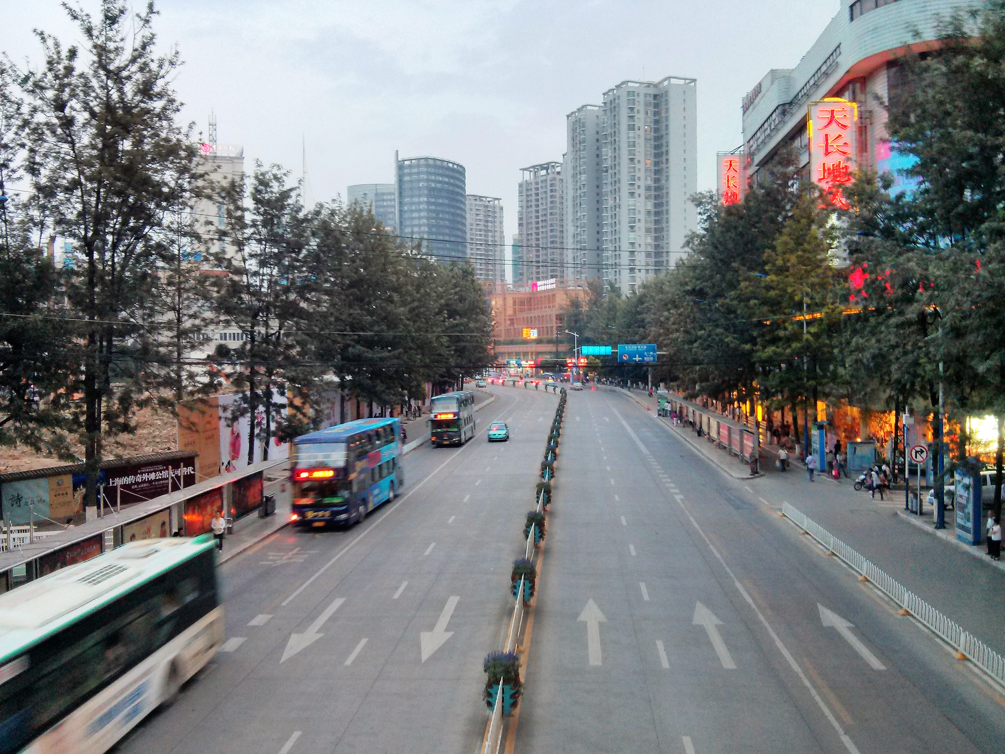 View on West Dongfeng road (东风西路) in Kunming (China) in August 2013.